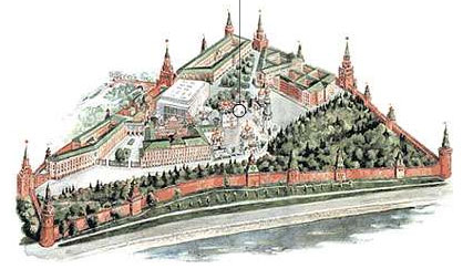 Overview map of the Moscow Kremlin. Location of The Patriarch’s Palace and the Church of the Twelve Apostles marked.